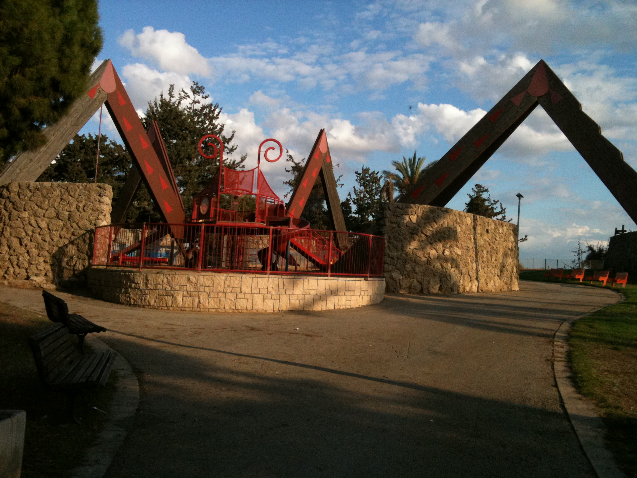 Geography of Israel